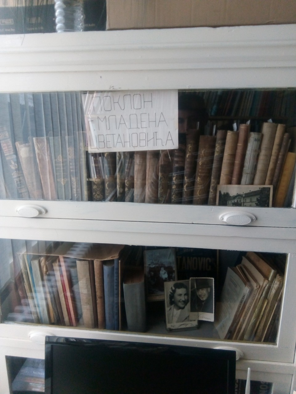 National library "Vuk Karadzic" Batočina Srpski (latinica): Narodna biblioteka "Vuk Karadzic" Batočina